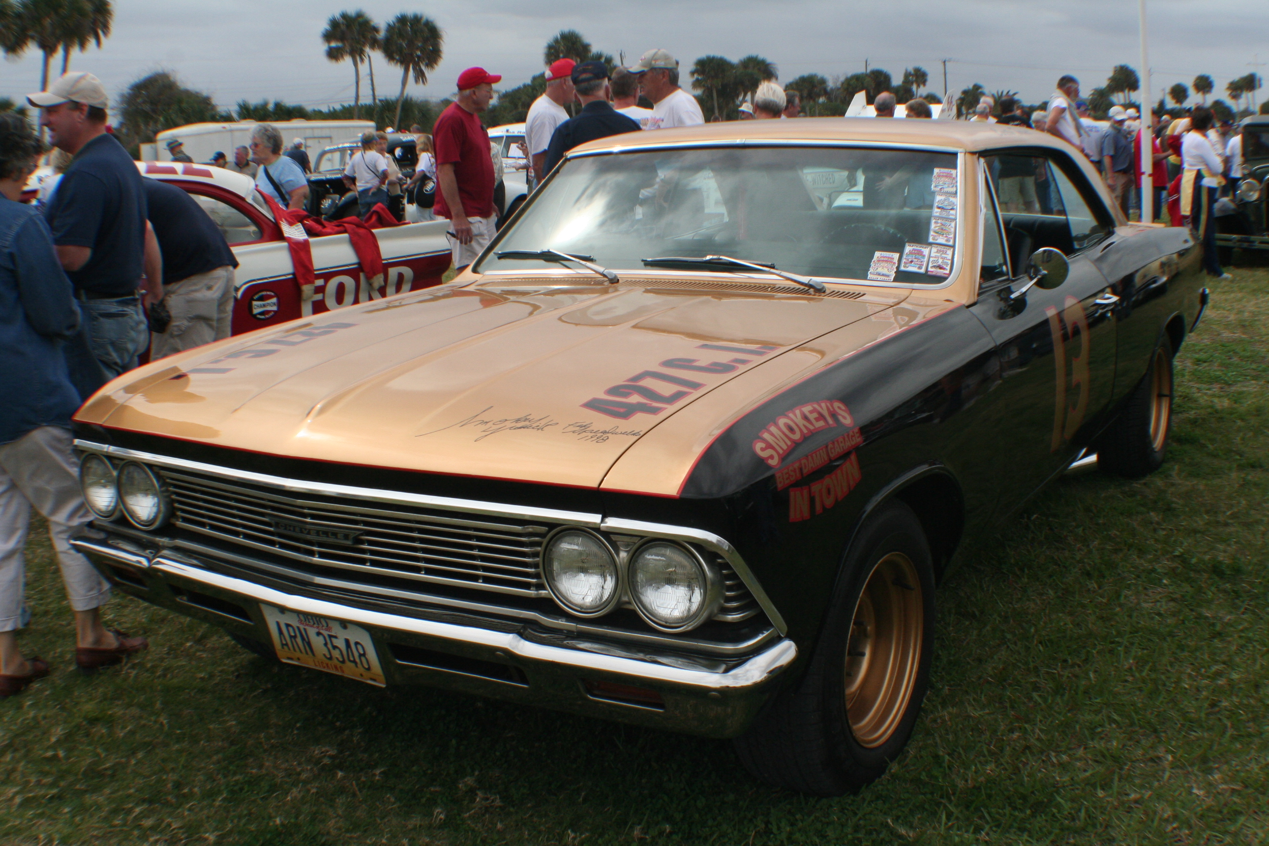 The 1966 Chevrolet Chevelle driven by Curtin Turner with mechanic Smokey Yunick. Shot by "The Daredevil" at Daytona during Speedweeks 2008.1966 Curtis Turner Smokey Yunick Chevy Chevelle